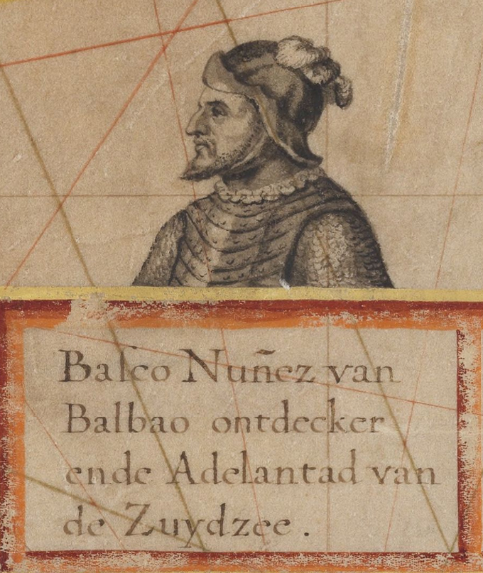 Mar del Sur. Mar Pacifico by Hessel Gerritsz / Met Octroy van /de E.H.M. Heeren/ de Staten Generael /der Verenichde Nederlanden / Duytsche mylen vÿfteen voor een graed der Breedte 300 [ = 165 mm]. CDDC X XXII II 1622